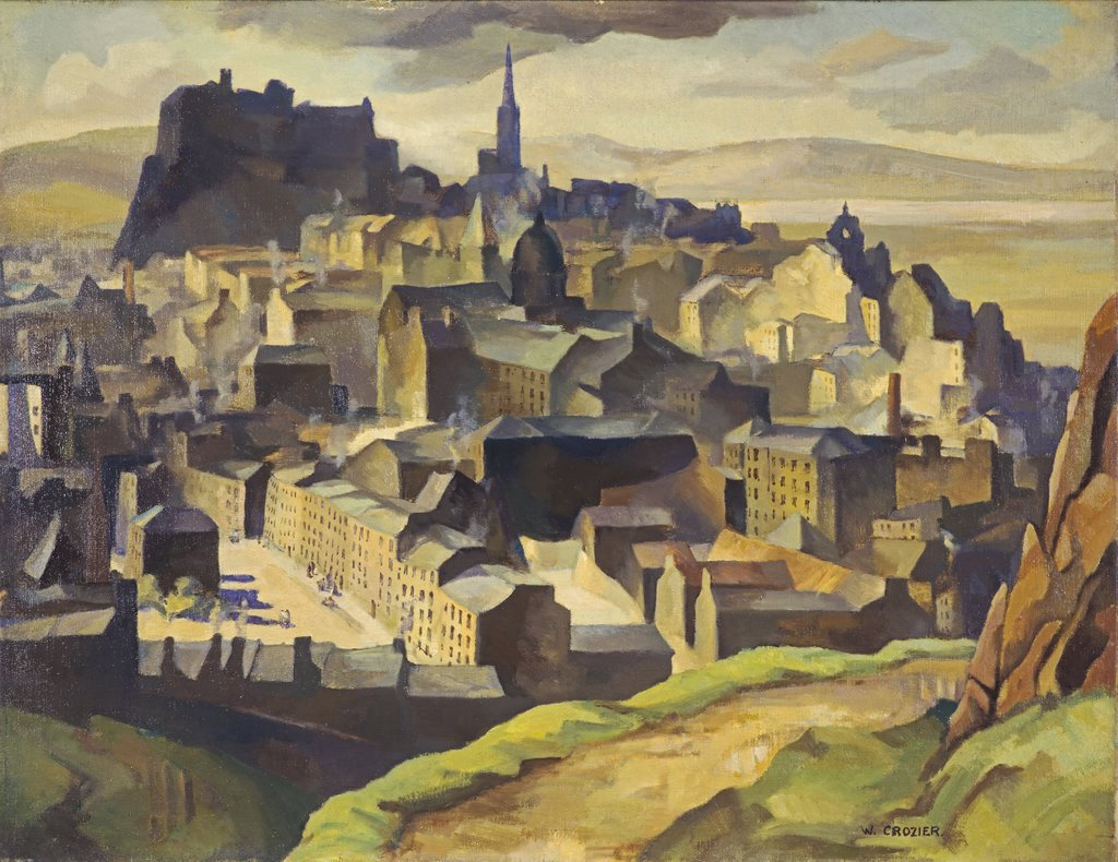 William Crozier, Edinburgh from Salisbury Crags, c. 1927. Oil on canvas, Size: 71.10 x 91.50 cm. The painting shows similarities with Cubism style. Crozier uses sunlit fronts of the buildings and contrasts them with deeply-shaded sides. This is considered as influence of strong sunlight found in Italy, where the he travelled several years on a scholarship. Painter André Lhote of Paris, taught Crozier breaking of subject in geometrical forms, as is seen in this painting. The painting was purchased by National Galleries of Scotland in 1942.